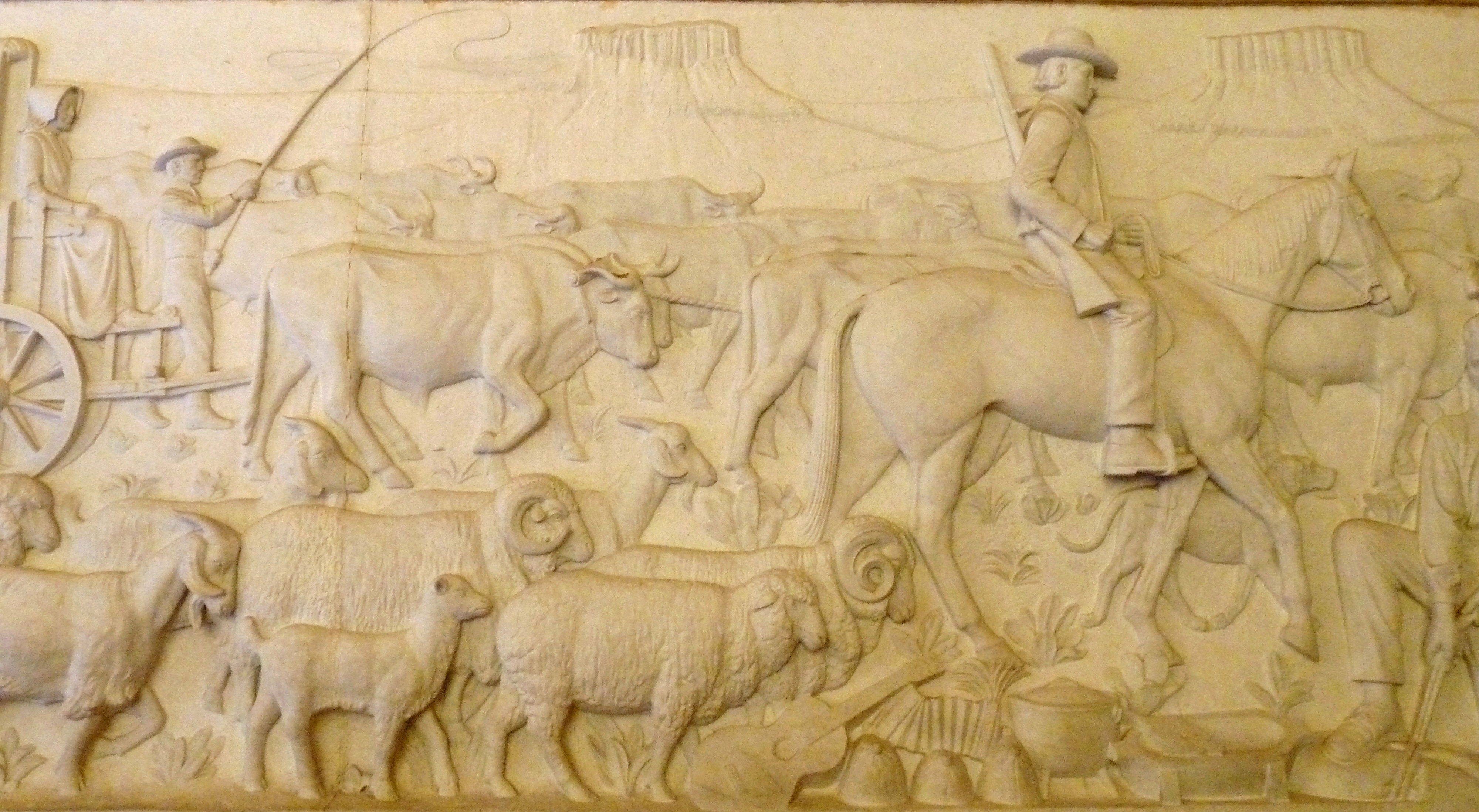 The first two bas-relief panels in the Voortrekker Monument depicts the exodus of farmers from the eastern Cape colony, 1836-37